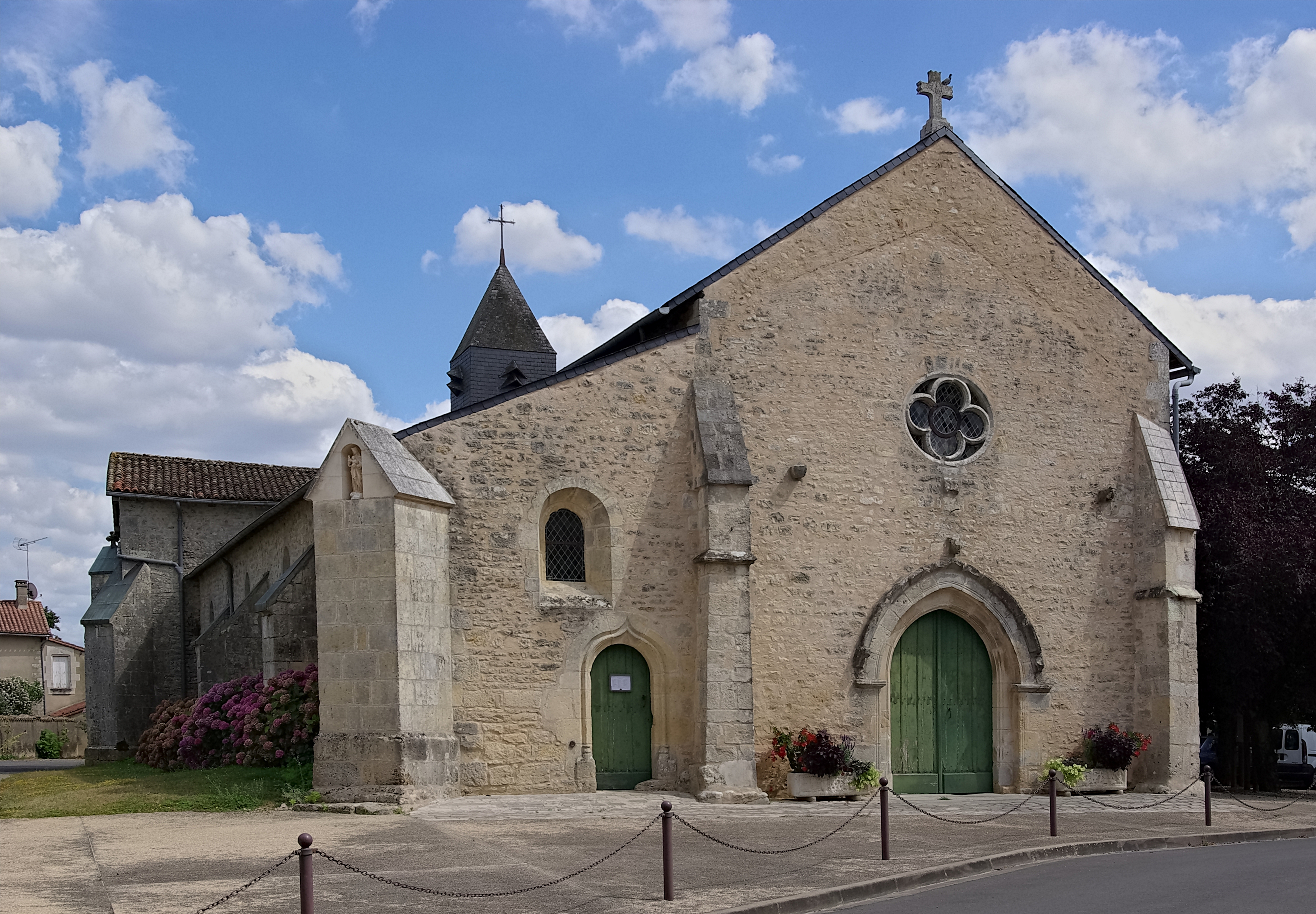 Saint-Laurent church (12th and 15th centuries, renovated in the 19th), Romagne, Vienne, France. .